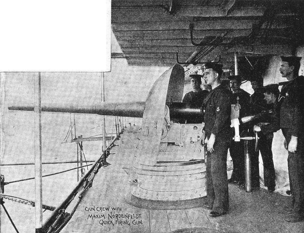 Gun crew with QF 14-pounder Maxim-Nordenfelt Gun, HMVS Cerberus. The 2 guns on Cerberus were unique in that they fired fixed ammunition. The complete round can be seen standing at the feet of the gunner to the right of the breech.